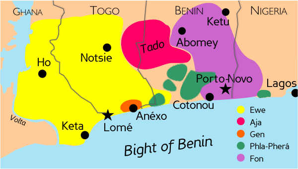 Map - labelled in English - showing the distribution of the various Gbe languages